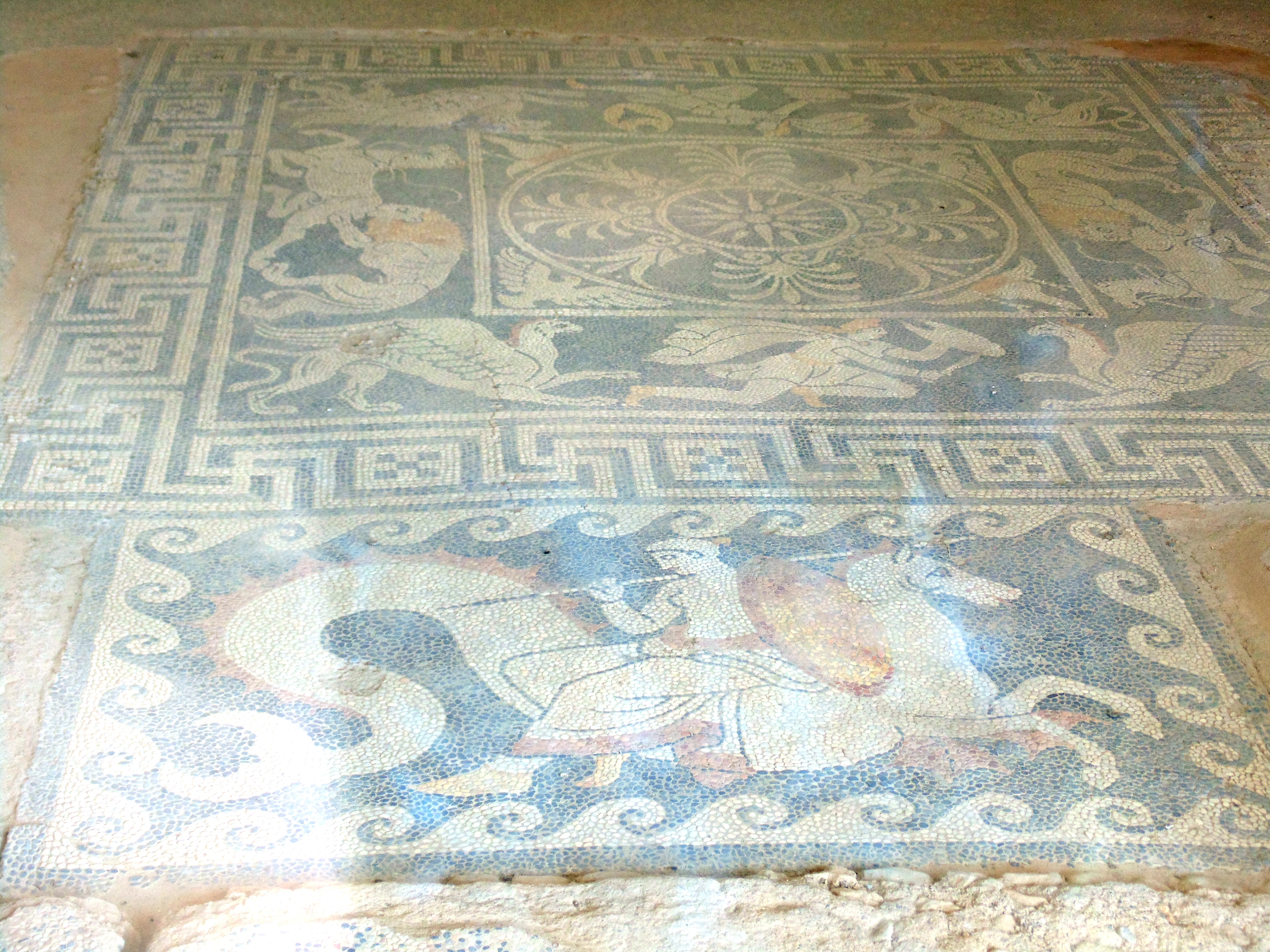 Mosaics